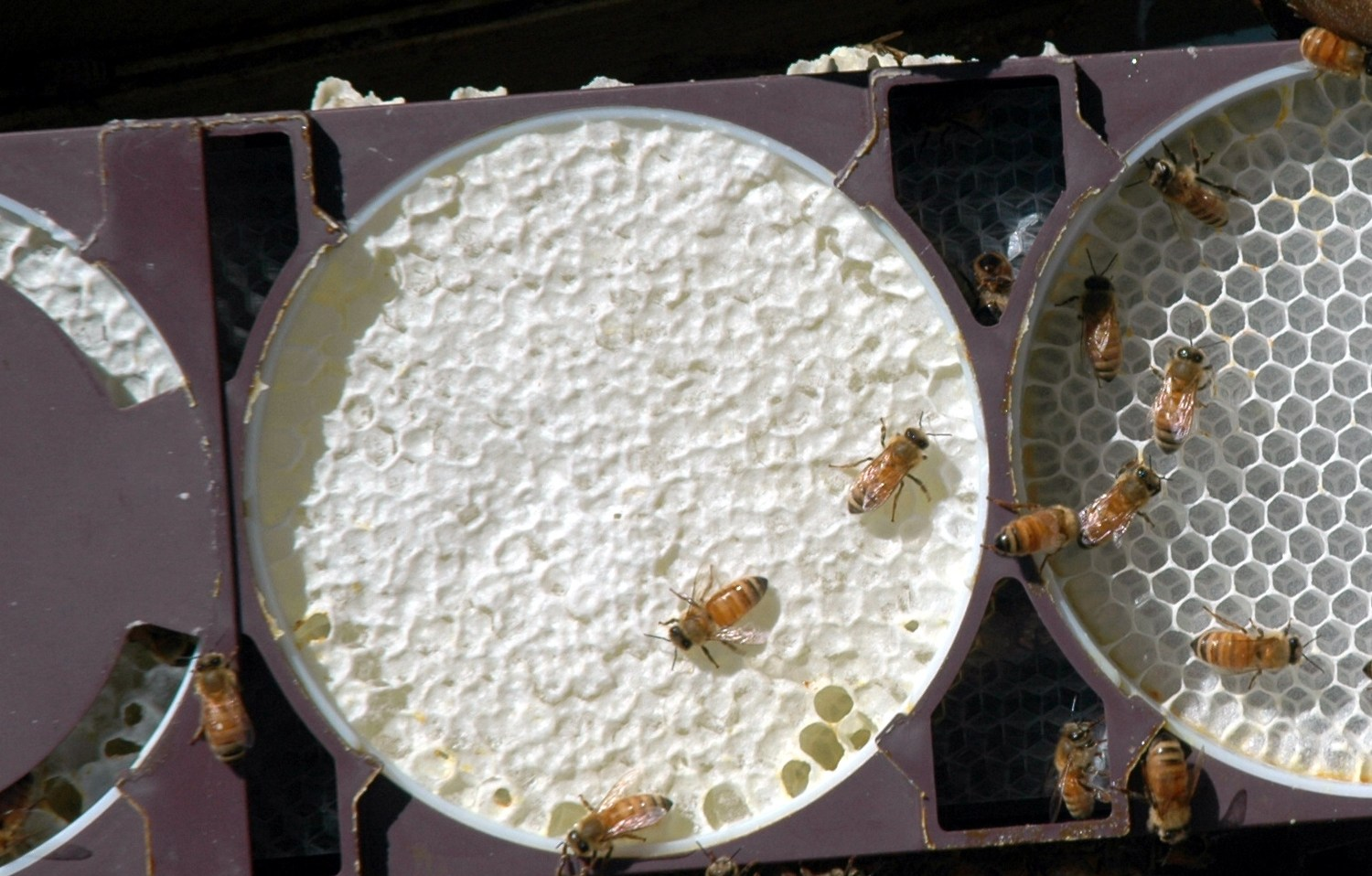 Natural Honey Comb produced in Ross Round equipment: Center comb is fully finished; Right comb is unstarted